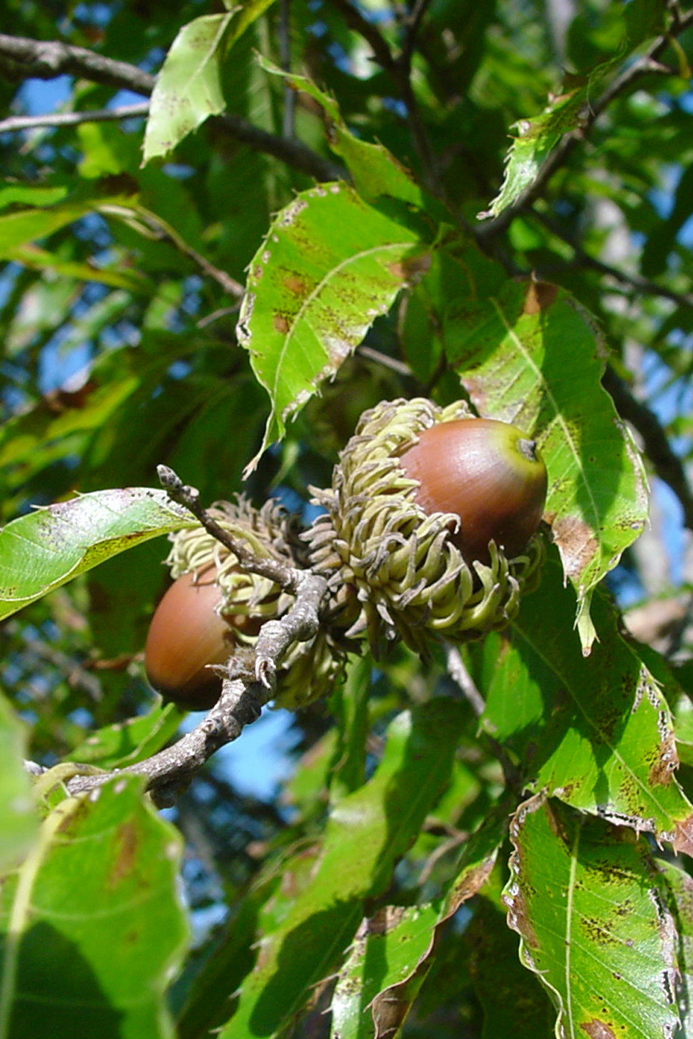 Quercus acutissima Carruth. - sawtooth oak - acorns in September